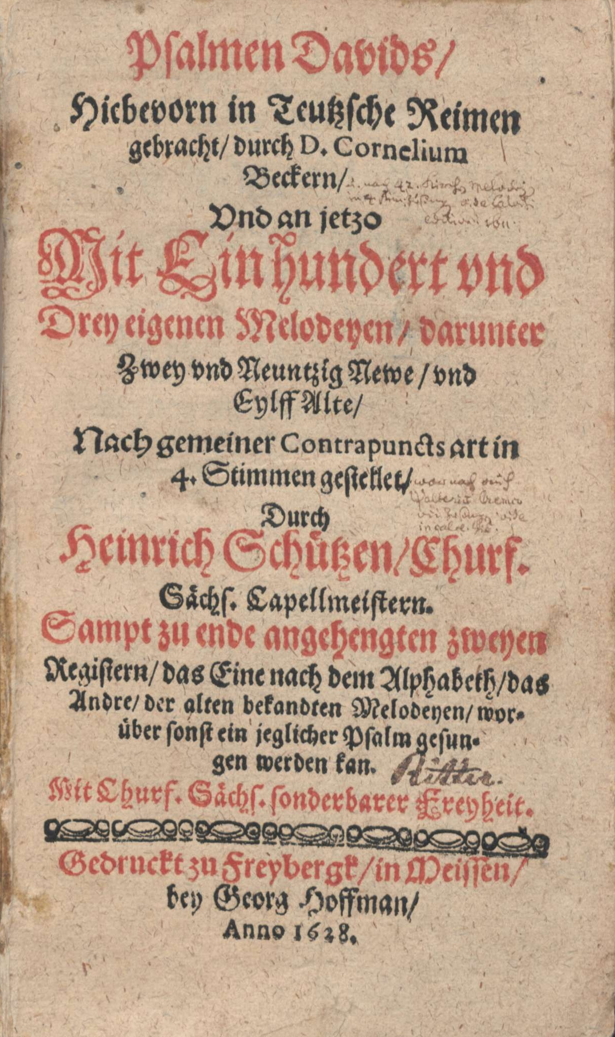 1628 imprint of the Psalmen Davids, published by Cornelius Becker and harmonised by Heinrich Schütz. It is part of the collection called the Becker Psalter.